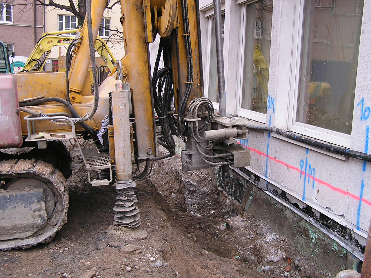 Boring machine for jet-grouting on a building site in Salzburg (Austria) underpinning an existing building right next to an excavation for a subterranean garage.